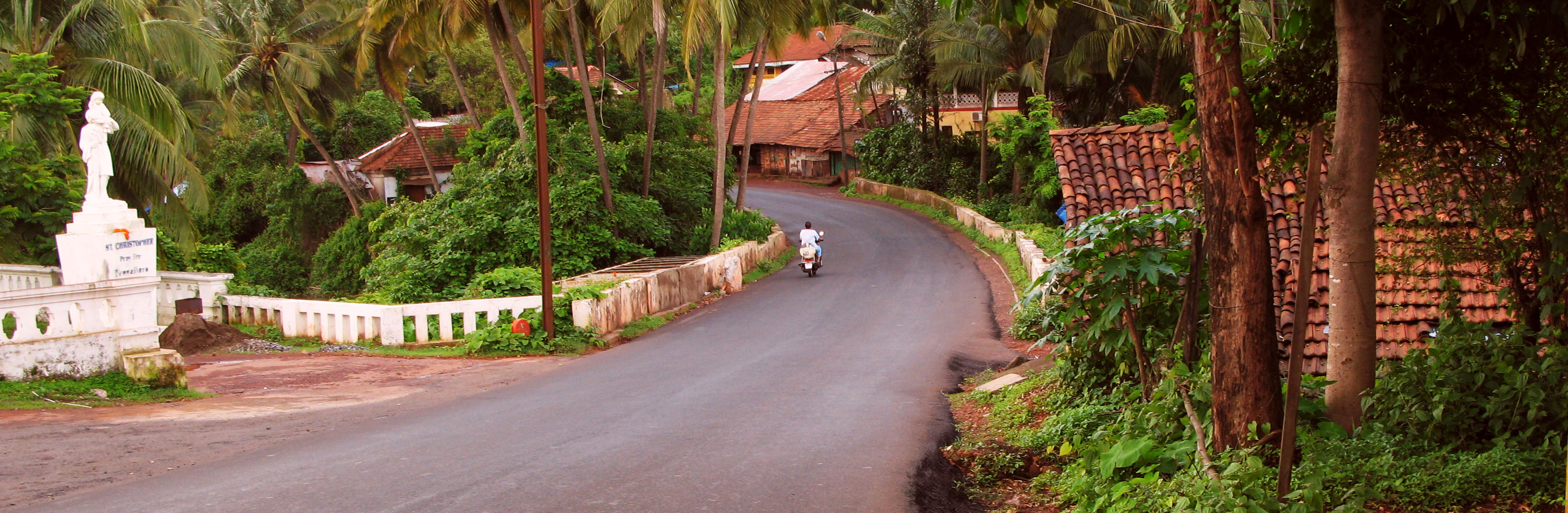 A typical road in Goa, India.